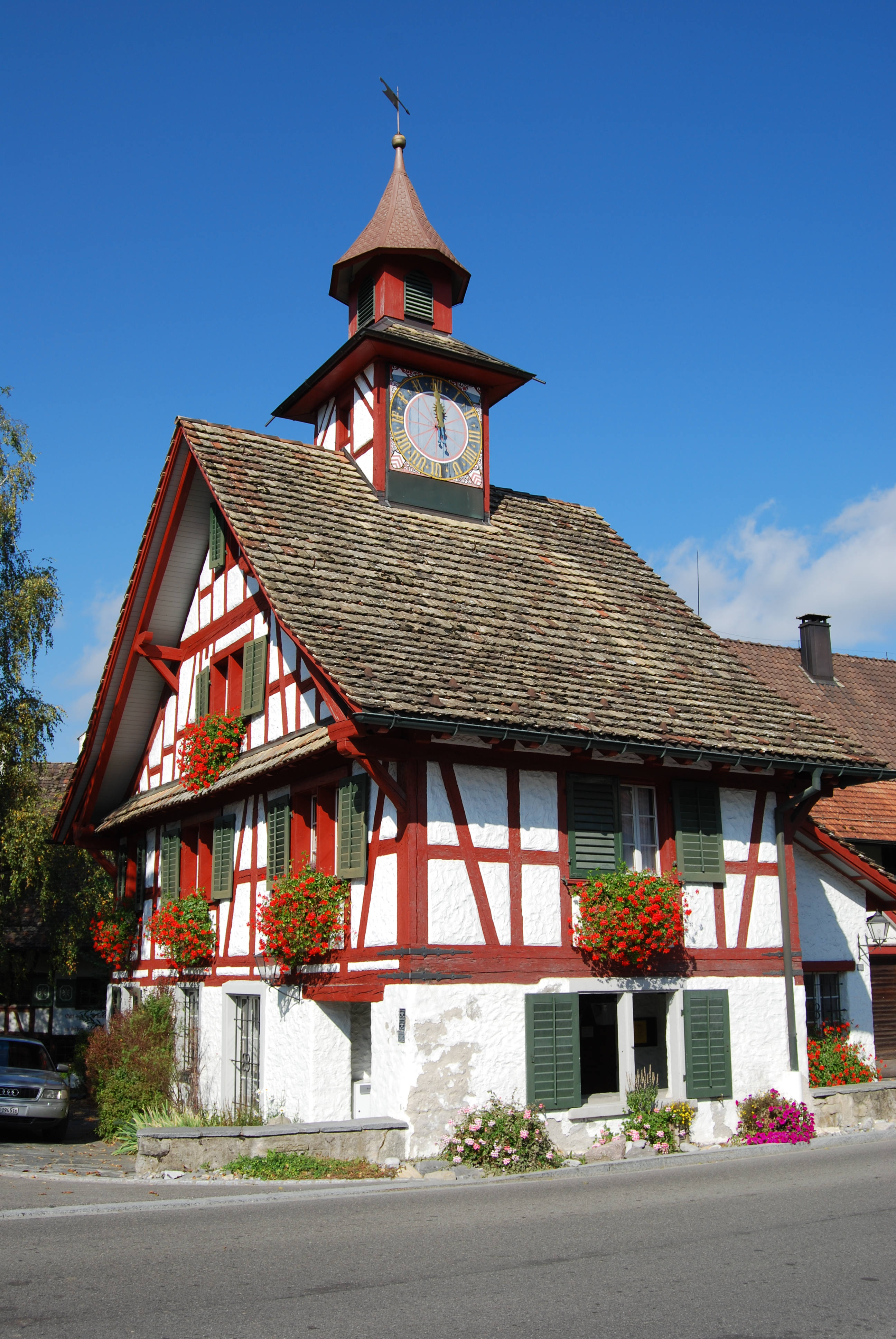 Tower house at Aesch, canton of Zürich, SwitzerlandEsperanto: Turetdomo en Aesch, Kantono Zuriko, Svislando